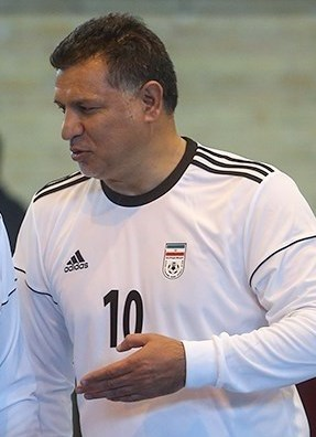 جانی اینفانتینو رئیس فیفا به ایران سفر کرد تا داربی تهران را از نزدیک تماشا کند . صبح روز ۱۰ اسفند و قبل از شروع داربی رئیس فیفا در جمع مدیران فوتبالی و بازیکنان پیشکسوت حاضر شد و با آنها گفتگو کرد و پس از آن در بازی فوتبالی دوستانه همراه با مارکو فان باستن رئیس بخش توسعه فیفا و جمعی از پیشکسوتان فوتبال ایران شرکت کرد .